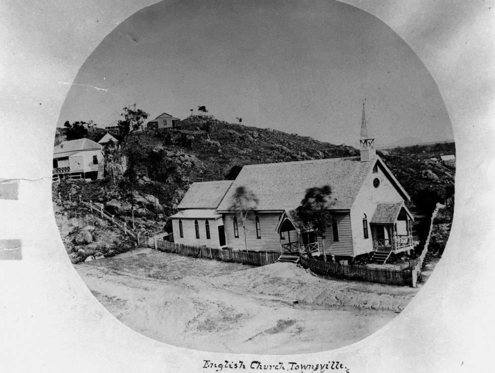 St. James' Church of England in Townsville, ca. 1875 St. James' Church with a rear extension erected after the main building. (Description supplied with photograph).